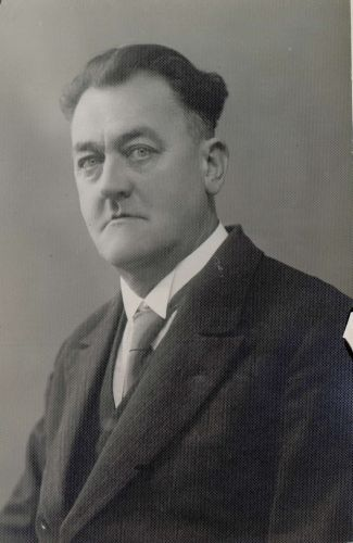 Damir Feigel (1879-1959)